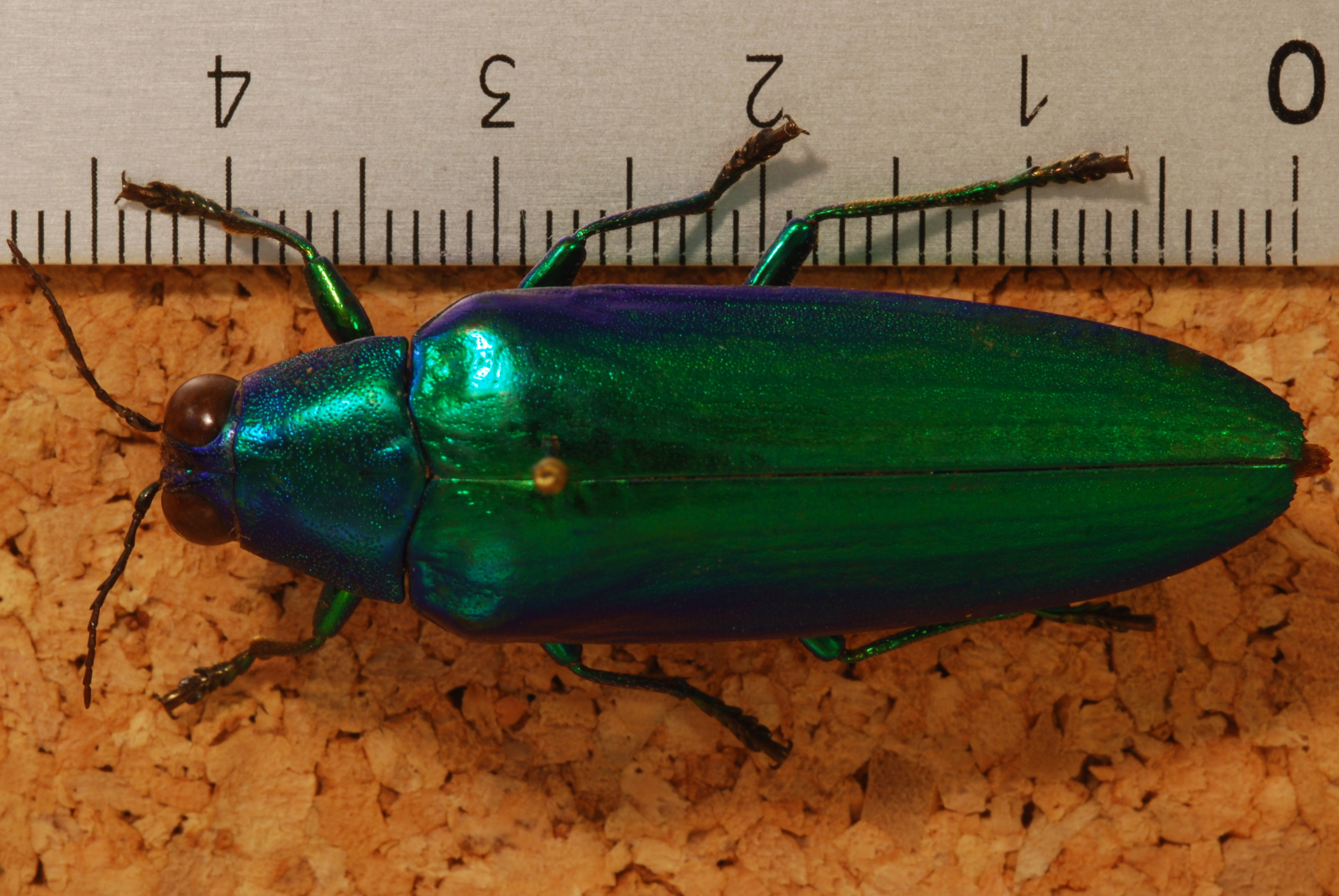 Cameron Highlands, MALAYSIA